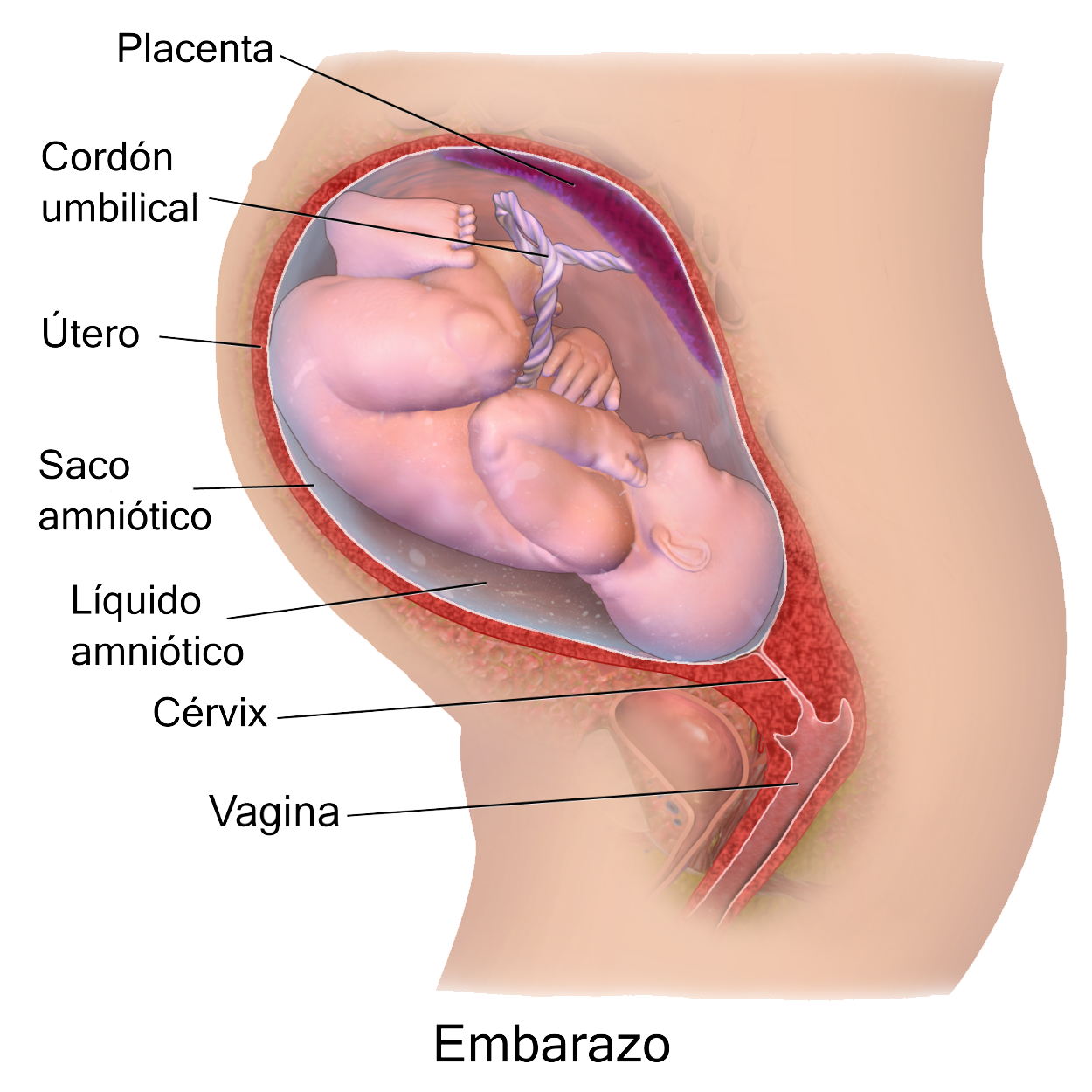 Pregnancy. See a full animation of this medical topic.